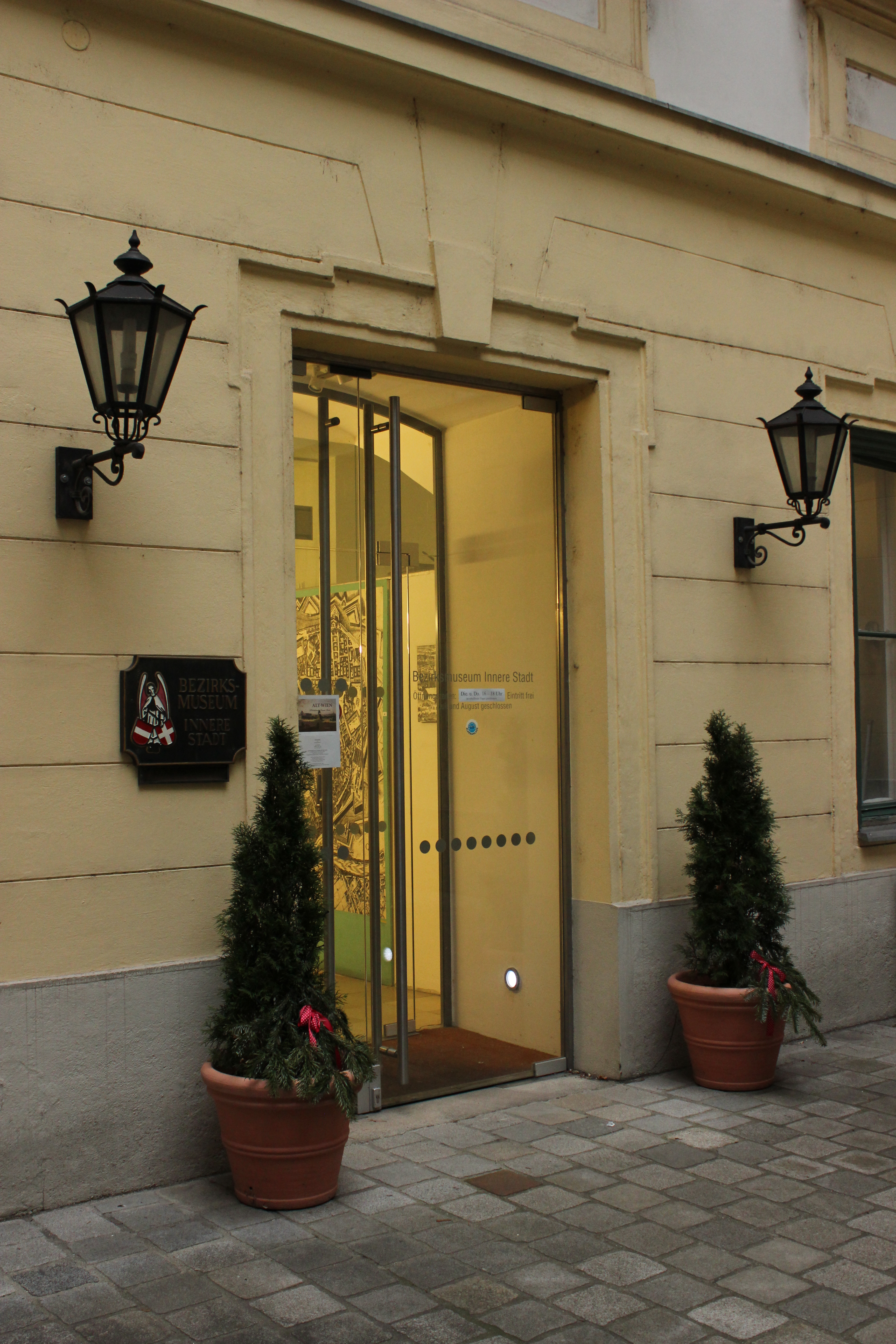 The Bezirksmuseum Innere Stadt (museum of the district Innere Stadt) in Vienna.